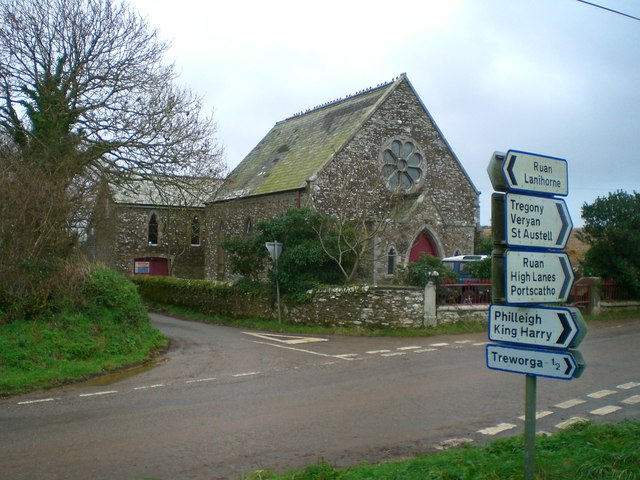 Ruan Methodist Chapel A former Wesleyan 'wayside' Chapel built to serve the rural farming community and funded by local subscription. Sadly closed for services in 2005.